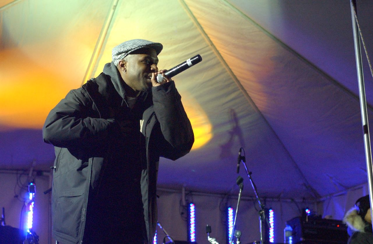 BrassMunk